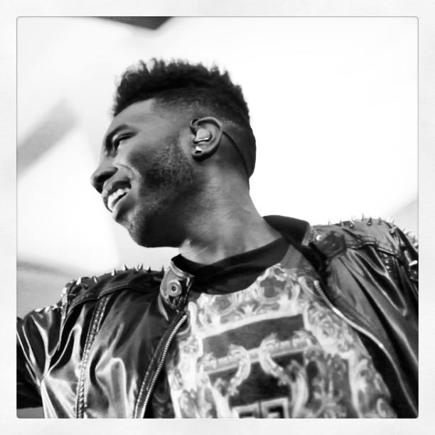 image of singer Shawn J Epic